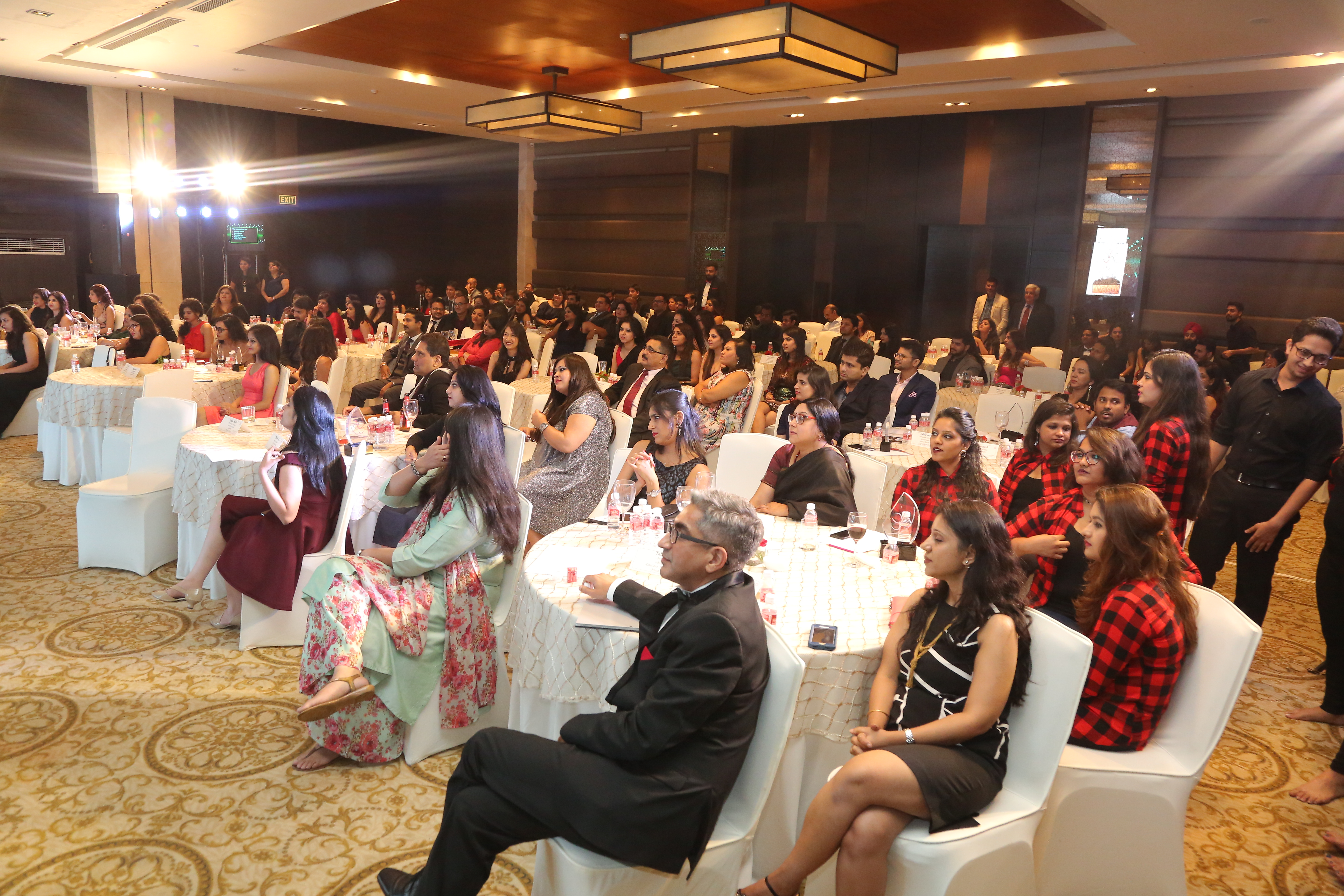 This image is clicked at the annual award ceremony of PR consultancy - Avian WE.